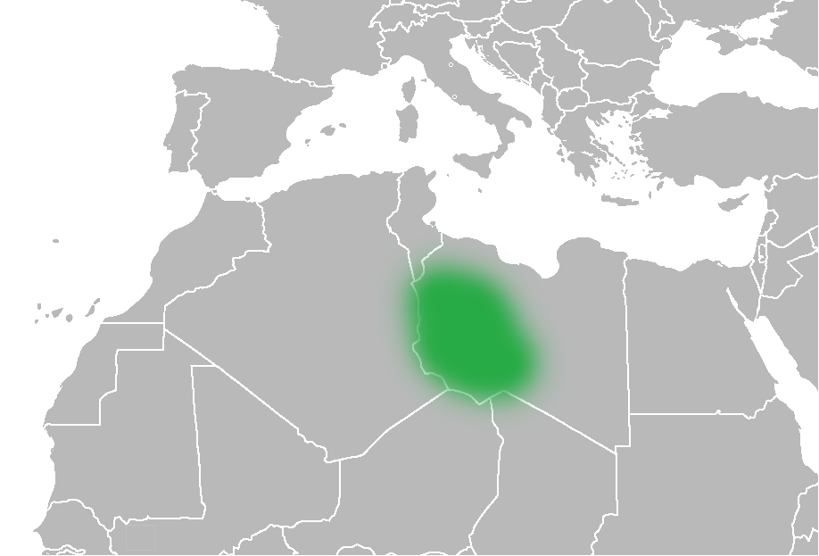 The Ottoman Turks conquered the country in the mid-16th century, and the three States or "Wilayat" of Tripolitania, Cyrenaica and Fezzan (which make up Libya) remained part of their empire with the exception of the virtual autonomy of the Karamanlis. The Karamanlis ruled from 1711 until 1835 mainly in Tripolitania, but had influence in Cyrenaica and Fezzan as well by the mid 18th century.